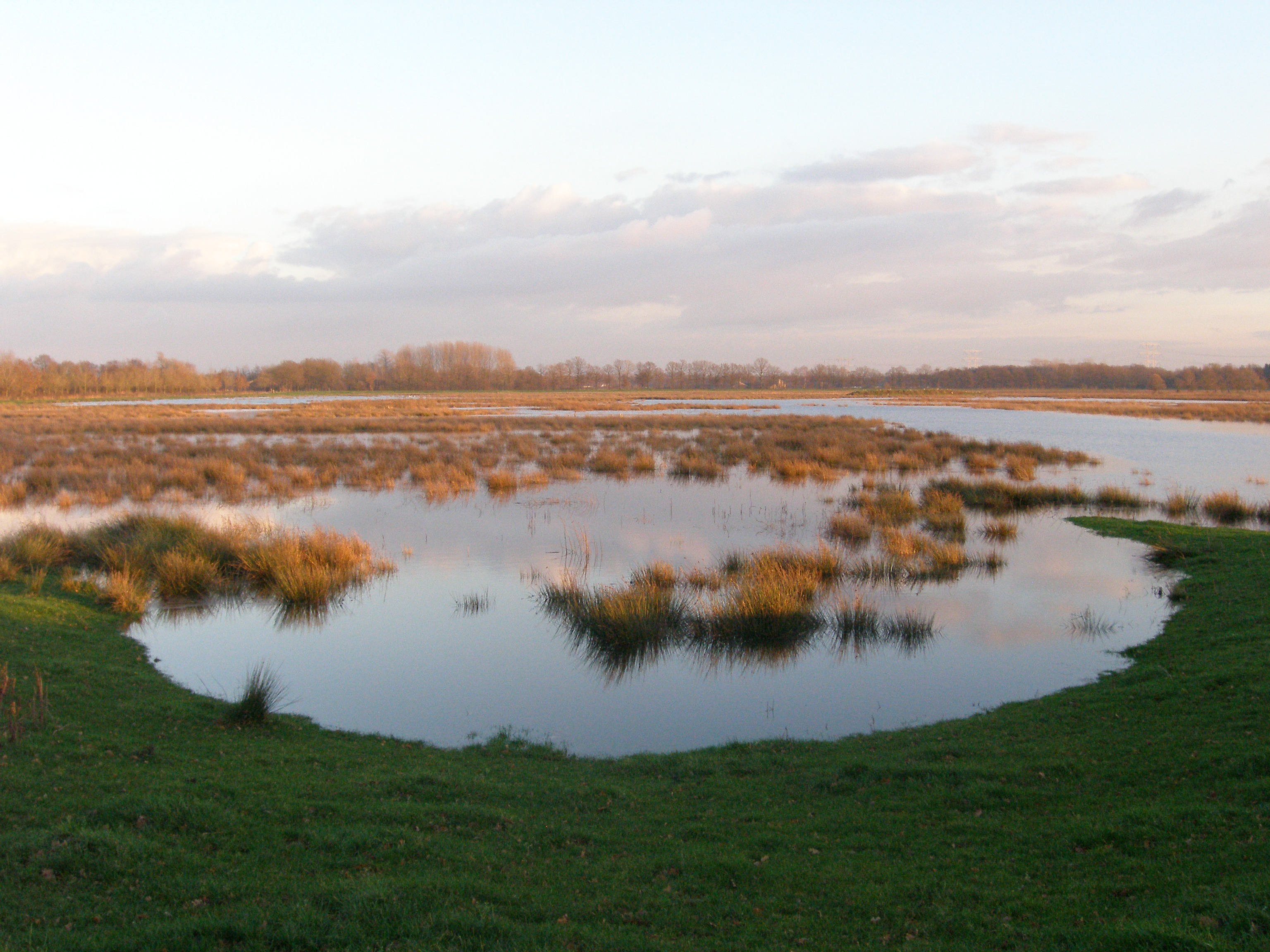 Viermannekesbrug, a flood plain of the Beerze brook. It is located midway between Oirschot and Oisterwijk (the Netherlands).